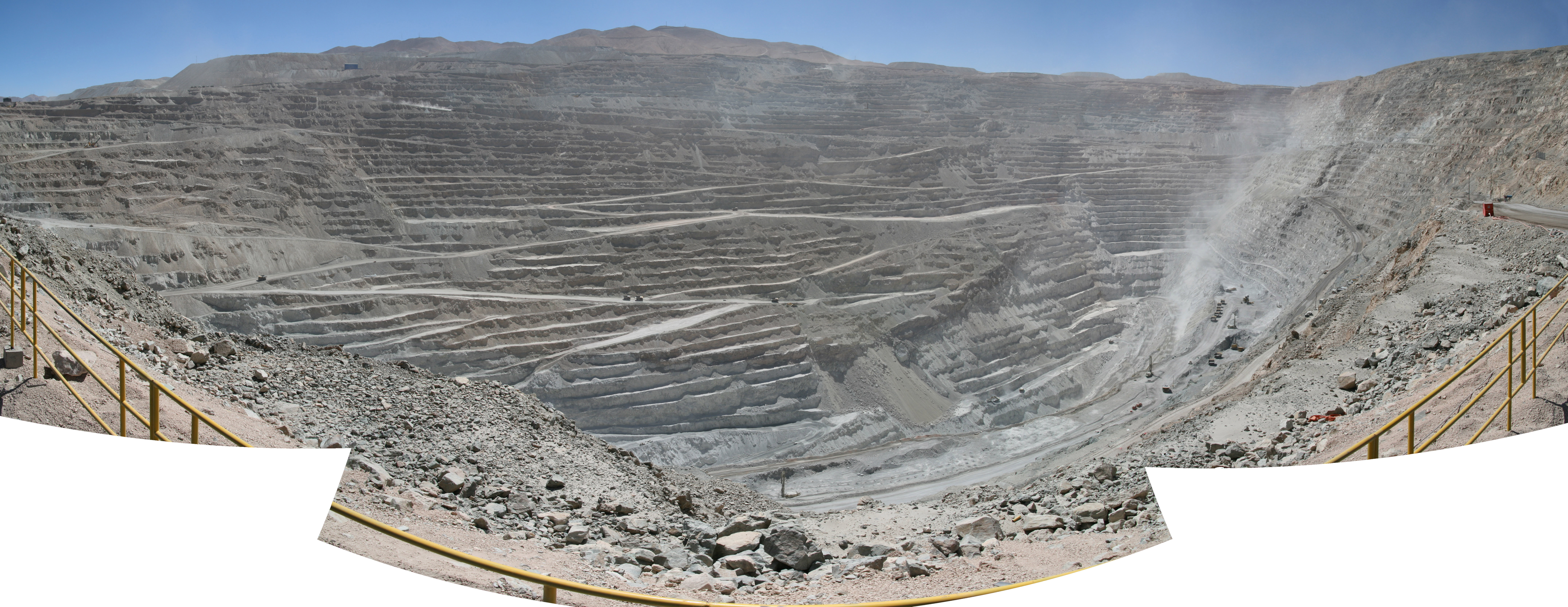 Panorama of Chuquicamata copper mine, Región de Antofagasta, Chile